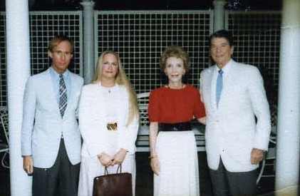 President Ronald Reagan, Nancy Reagan, Lee Atwater, Sally Atwater, Roger Stone, Ann Stone, (Not in all Photos)